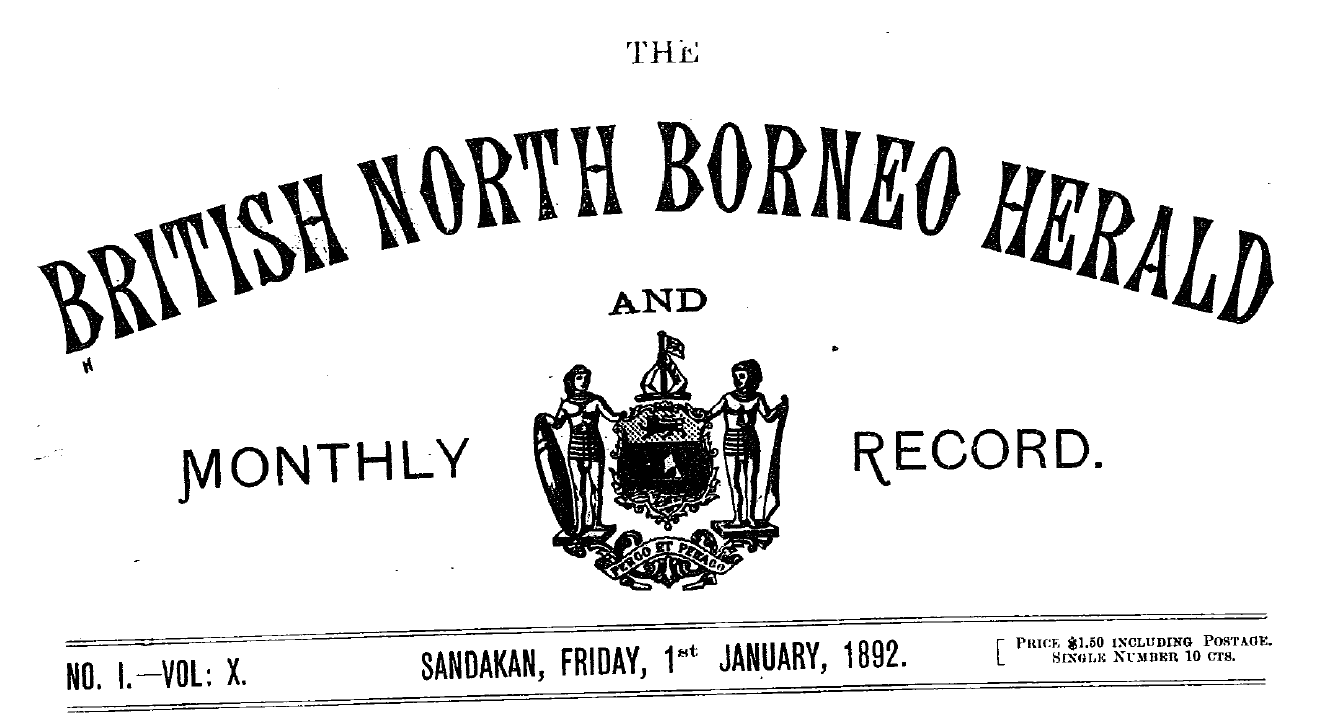 British North Borneo Herald and Monthly Record, Vol. X, No. 1, 1892, Sandakan, 1. Januar 1892